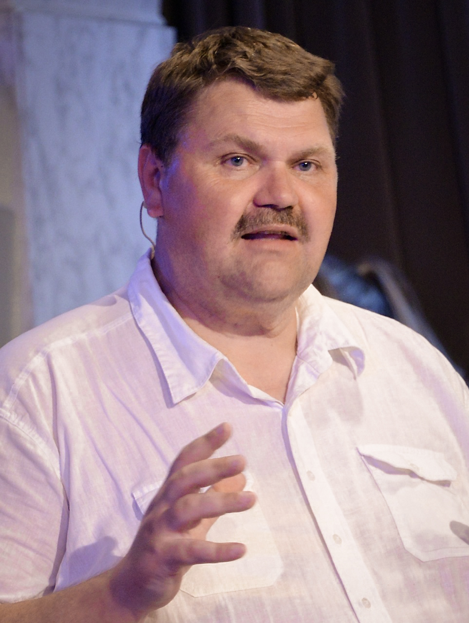 Peter Lundgren (SD) in a panel discussion May 21, 2014 for the European elections.